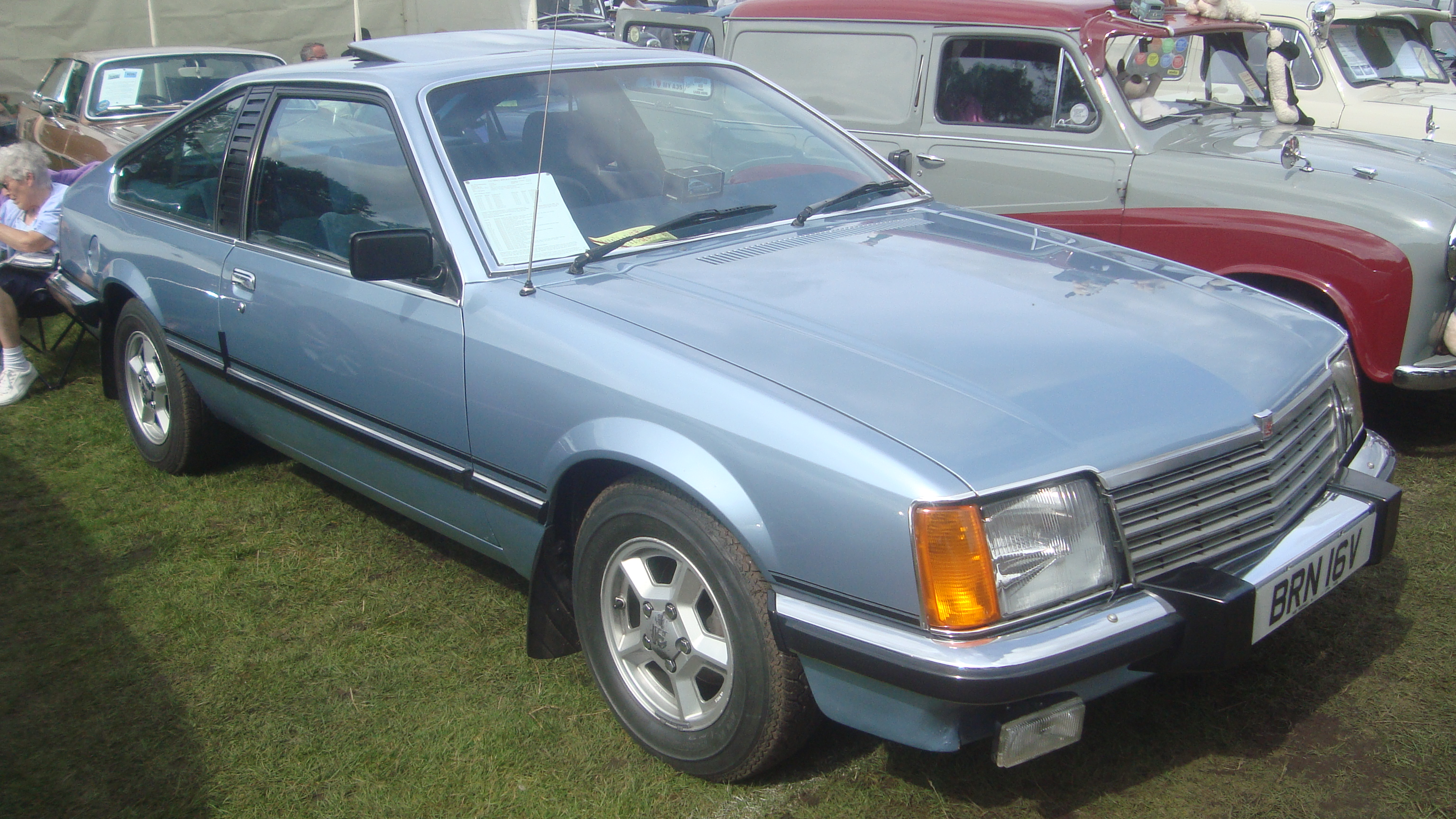 Taken at the Tatton Park 'Passion For Power 2017